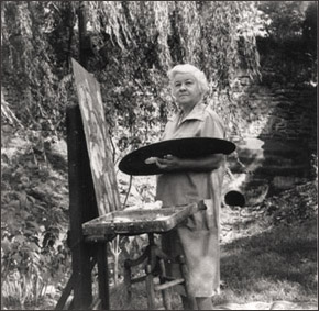 Mary Elizabeth Price at easel. Niece (owner of family history site) released this image to me specifically for Wikipedia.